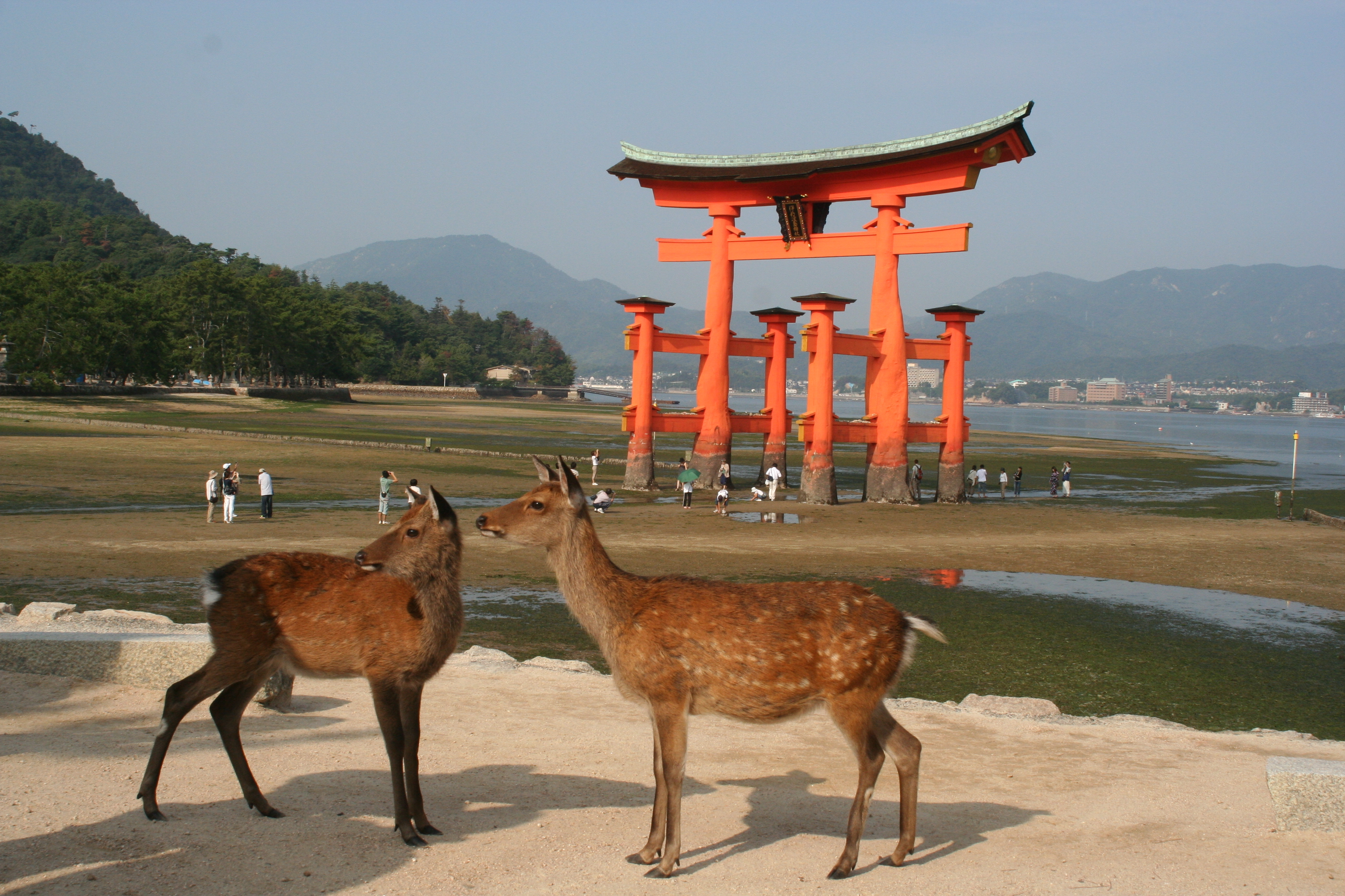 Tame deer in front of Itsukushima Shrine Torii, Miyajima Island, Hiroshima Prefecture, Japan, during low tide